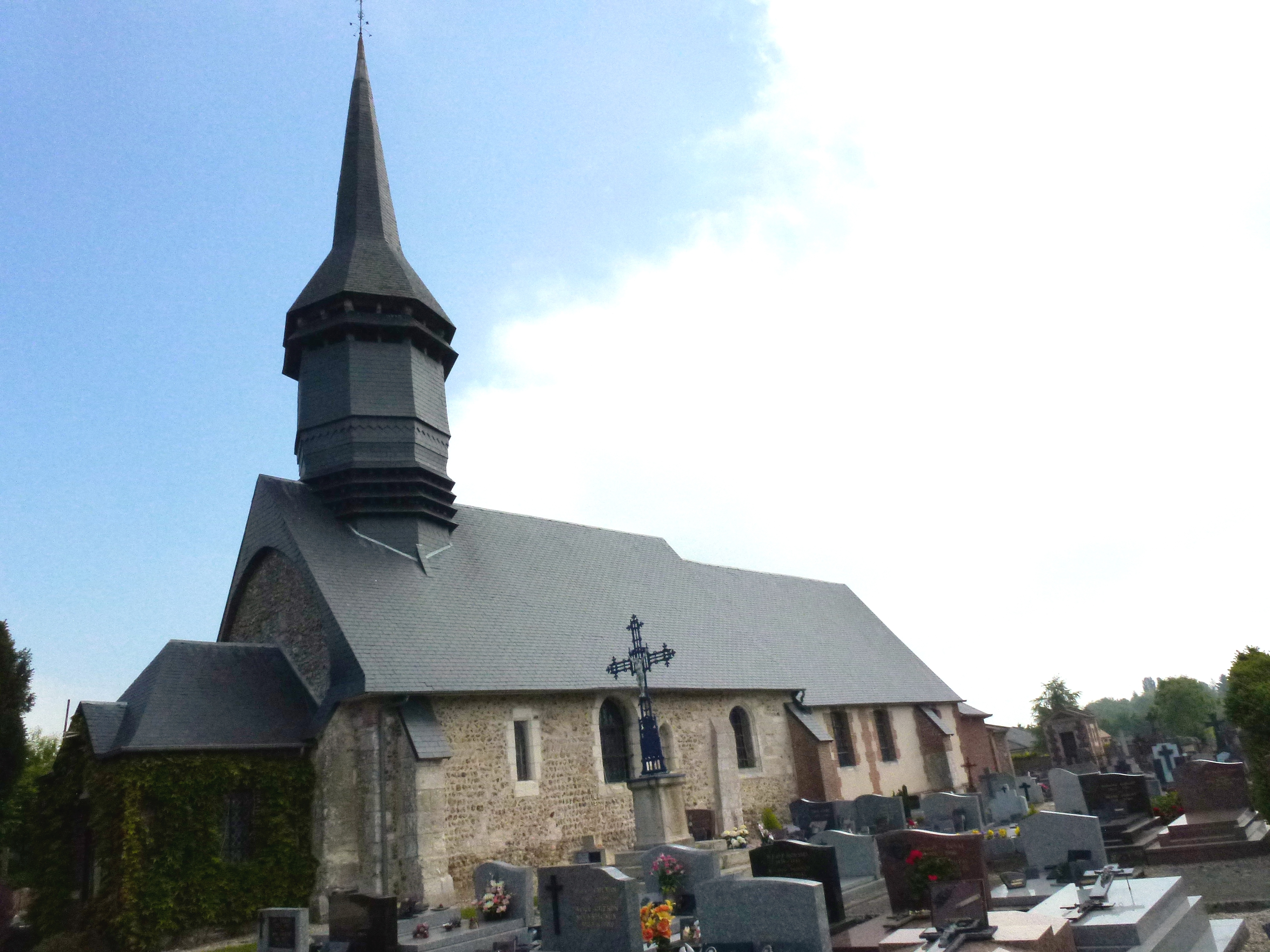 Bournainville-Faverolles (Eure, Fr) église de Bournainville